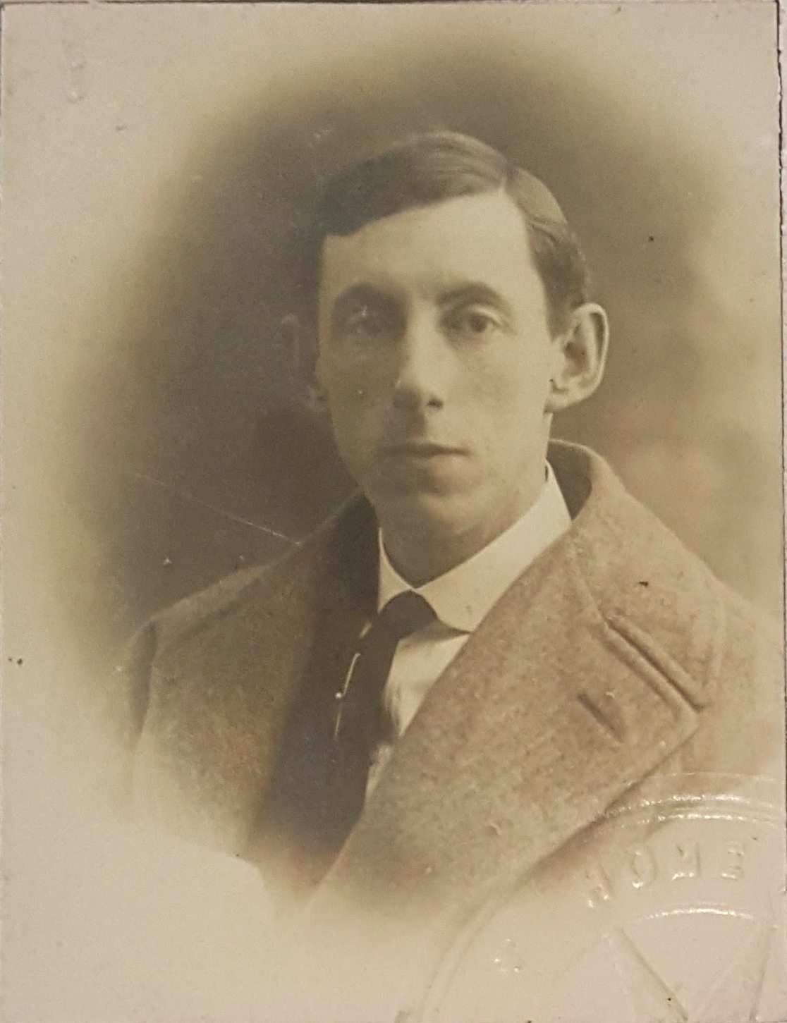 Frederick Spencer Burnell, c.1931, Frederick Spencer Burnell papers, 1908-1950, State Library of New South Wales A 6958-A 6961